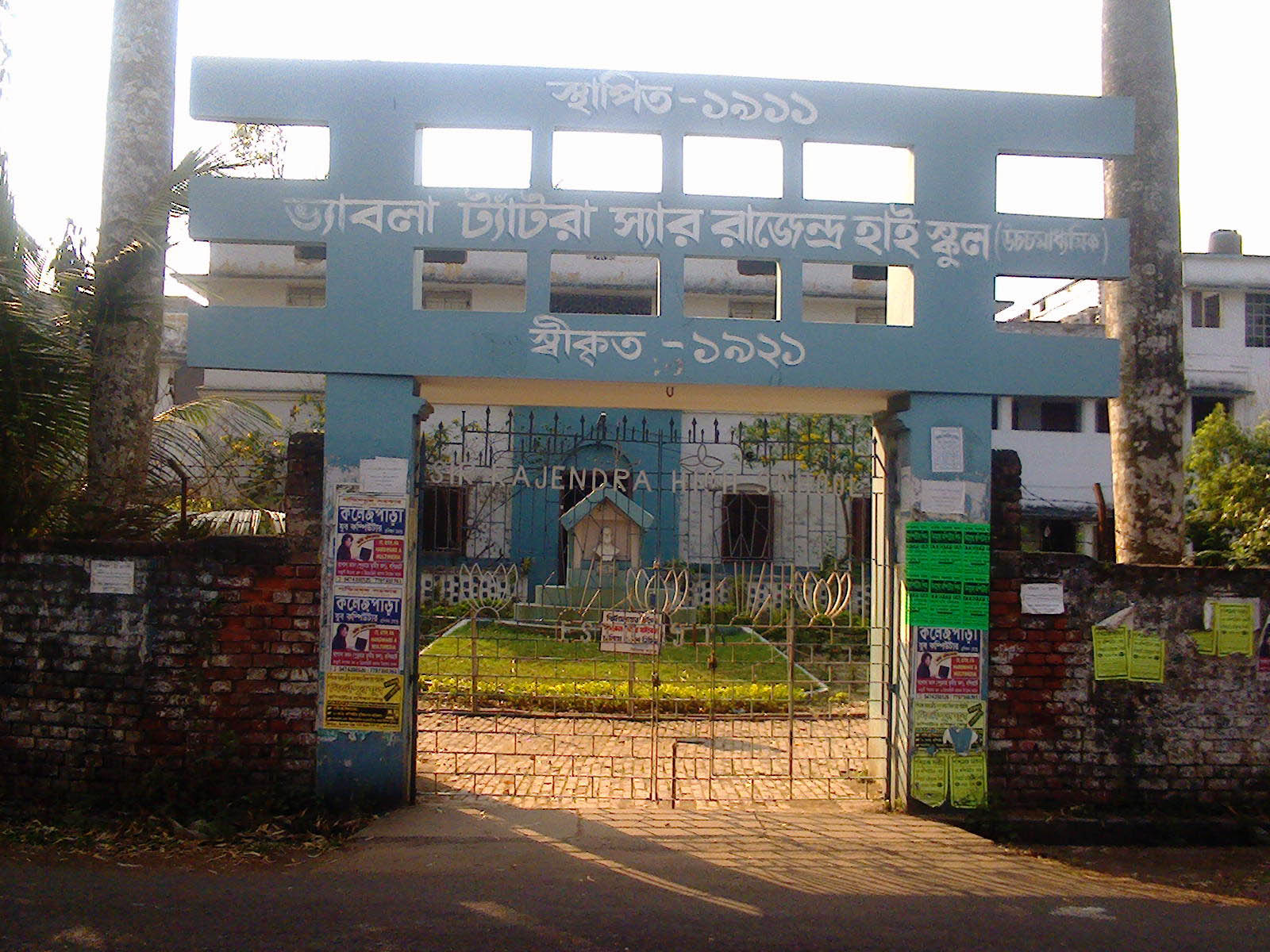 The main gate of Bhabla Tantra Sir Rajendra High School I took this photo myself with my 2MP cellphone camera